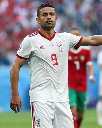 Iran-Morocco match, Group B, 2018 FIFA World Cup